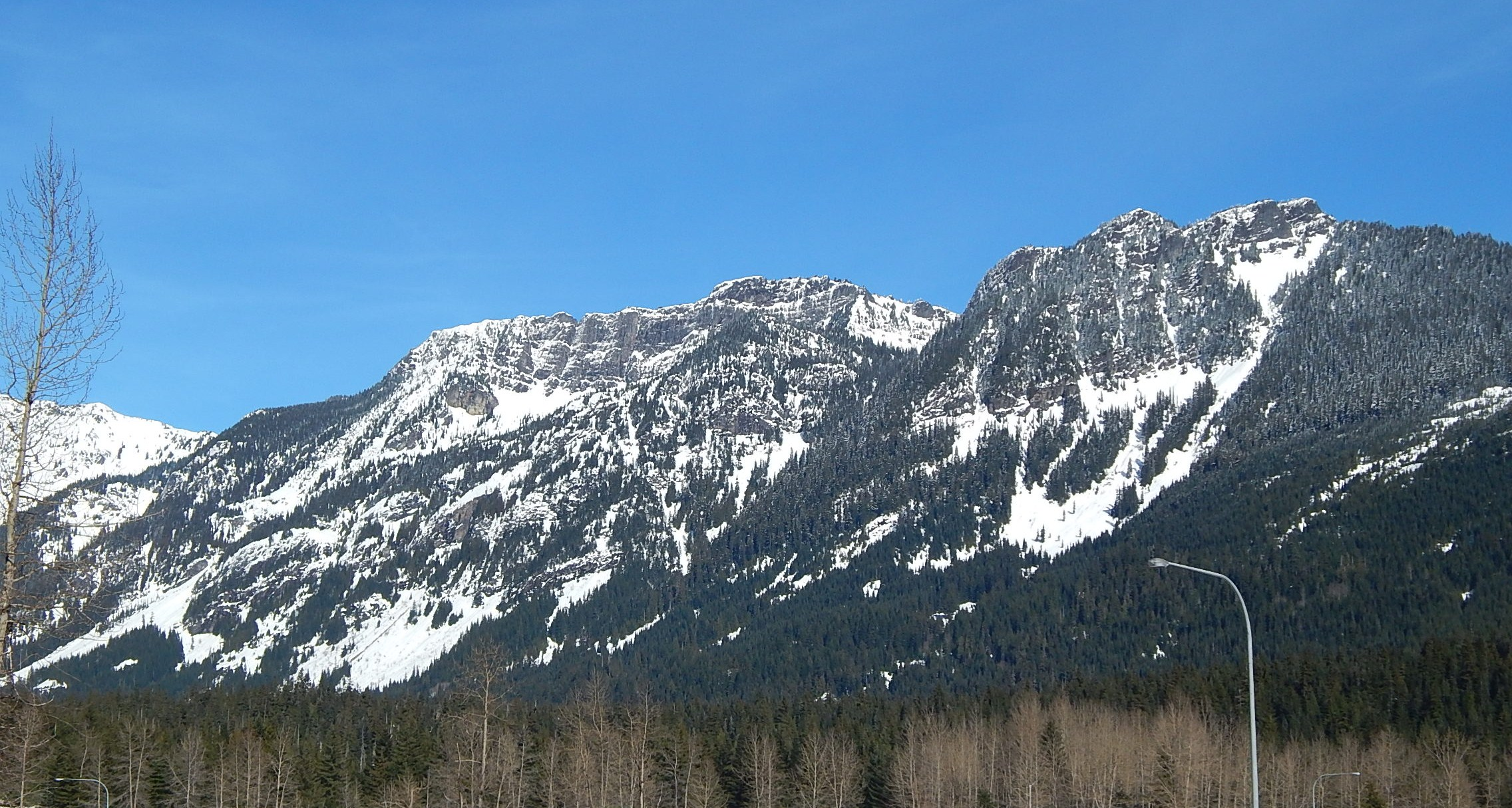 Rampart Ridge in the Cascade mountain range, seen from Hyak (Snoqualmie Pass) in Washington state.